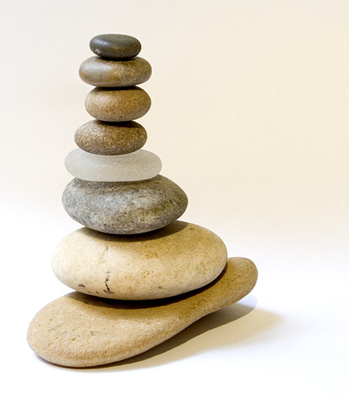 A stack of pebbles (I love pebble stacking)